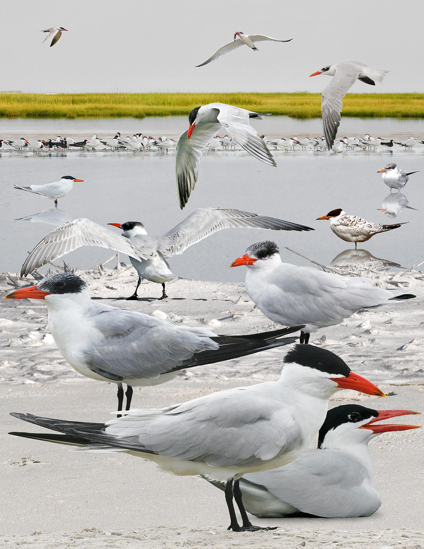 Caspian Tern From The Crossley ID Guide Eastern Birds